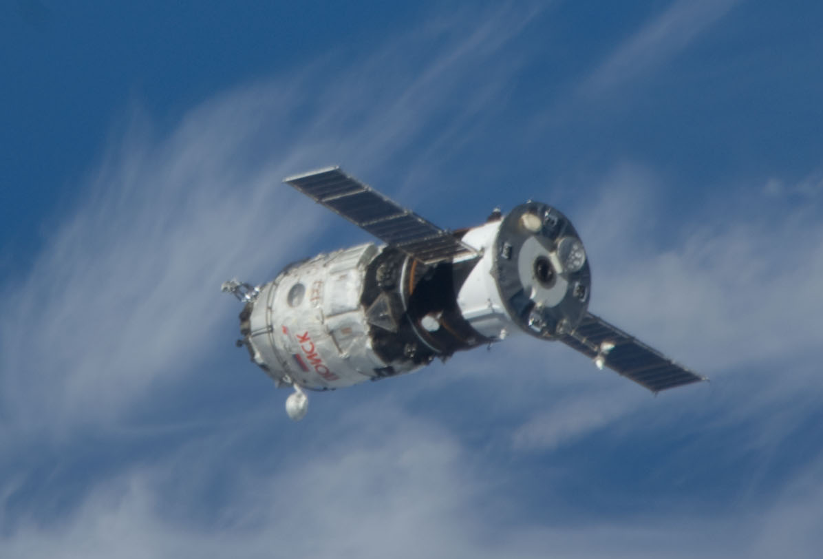 Progress M-MRM2, carrying the Poisk module of the International Space Station, seen backdropped by a blue and white Earth as it made its approach to dock at the zenith docking port of the Zvezda Service Module. Back dropped by a blue and white part of Earth, the unpiloted Russian Mini-Research Module 2 (MRM2), also known as Poisk, approaches the International Space Station. The MRM2 docked to the space-facing port of the Zvezda Service Module at 9:41 a.m. (CST) on Nov. 12, 2009. It began its trip to the station when it was launched aboard a Soyuz rocket from the Baikonur Cosmodrome in Kazakhstan on Nov. 10. Poisk is a Russian term that translates to search, seek or explore. It provides an additional docking port for visiting Russian spacecrafts and serves as an extra airlock for spacewalkers wearing Russian Orlan spacesuits.